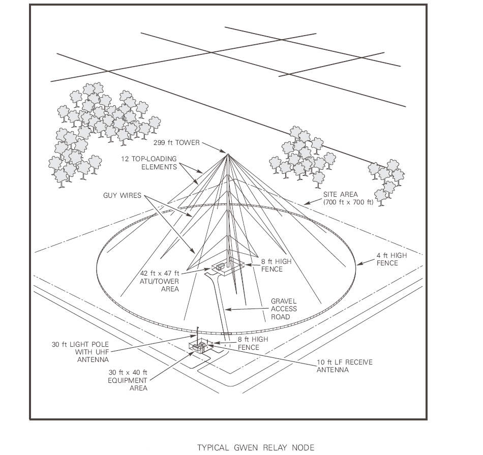 Diagram of a Ground Wave Emergency Network relay node. GWEN was a survivable command and control communications network operated by the US military between 1982 and 1993 designed to ensure that messages from national command authority, such as nuclear launch orders, would reach US military facilities in the aftermath of a nuclear strike. It consisted of a network of unmanned radio relay "nodes" at 150-200 mile intervals throughout the US which forwarded messages on 150-175 kilohertz in the low frequency (LF) band. Radio transmissions in this band are relatively unaffected by the W:electromagnetic pulse (EMP) created by nuclear weapons that disrupt other electronic devices. The node consists of a UHF receiver and a 2 kilowatt low frequency transmitter driving a 299 ft high, umbrella antenna.